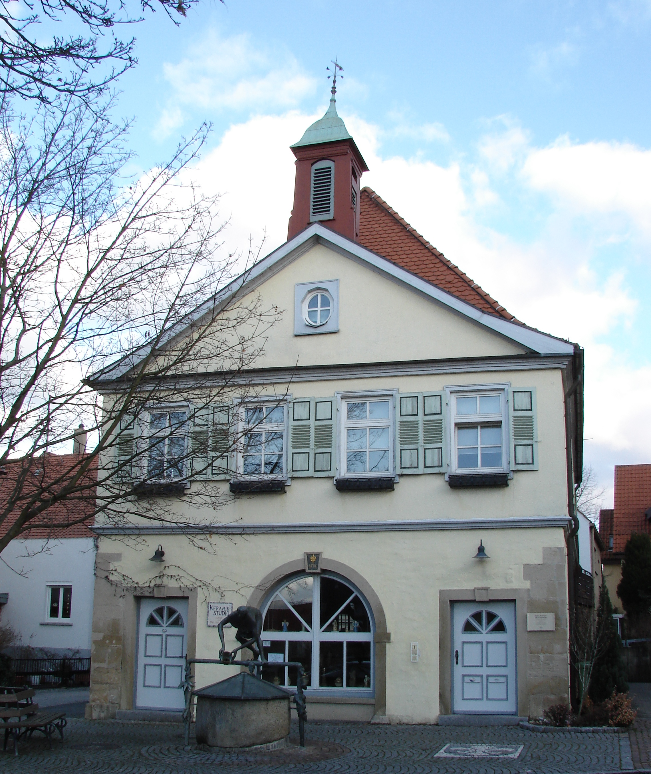 Freiberg am Neckar, old town hall of Heutingsheim